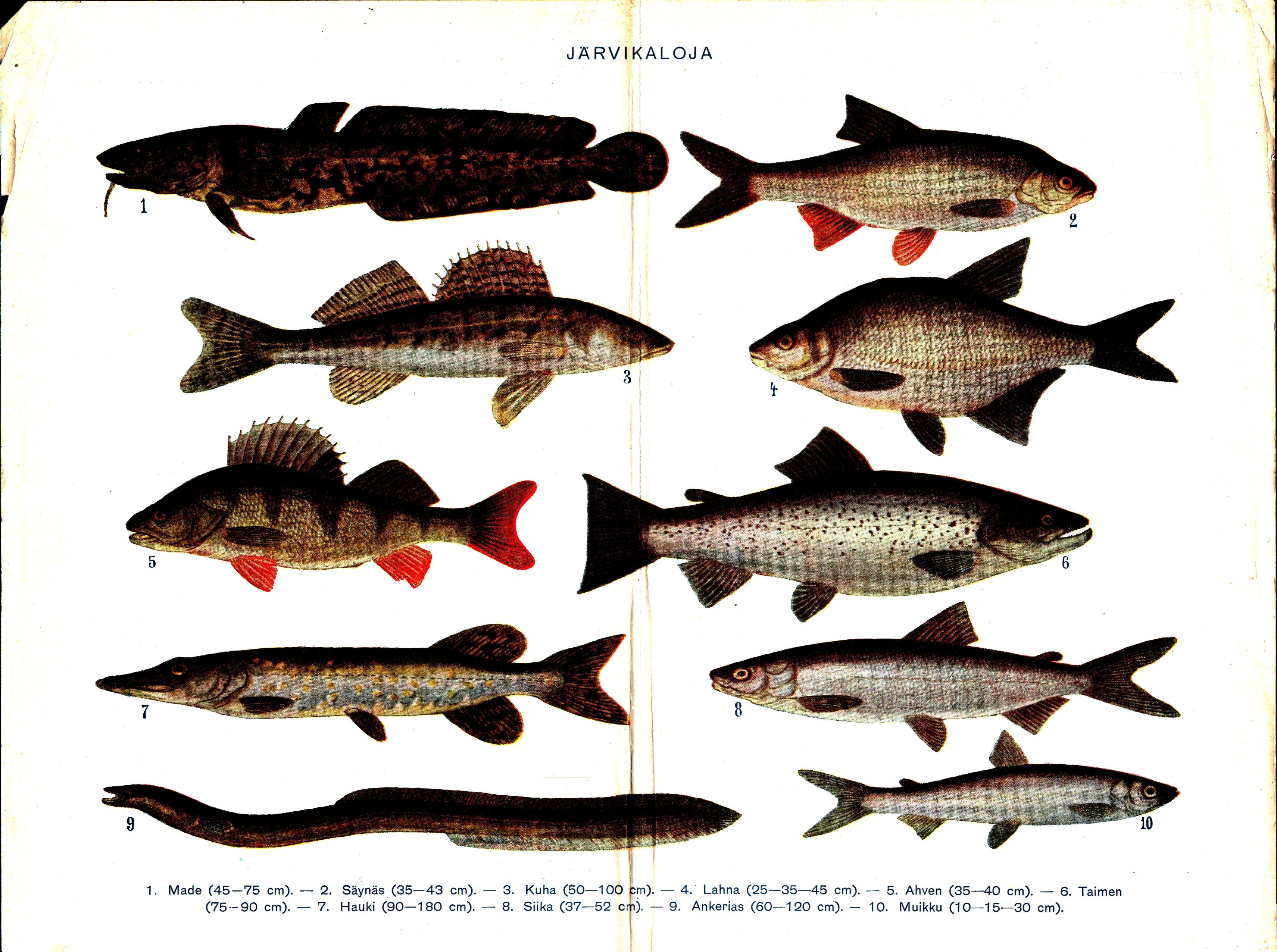 Various sweetwater fishes with Finnish text